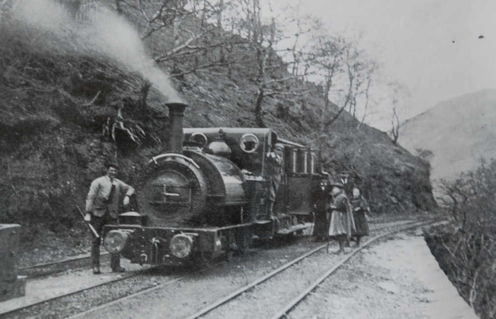 Talyllyn Railway locomotive No. 1 Talyllyn at the foot of the Allywyllt Incline, around 1894